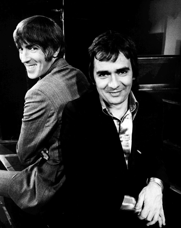 Publicity photo of Peter Cook and Dudley Moore from their revue "Good Evening".